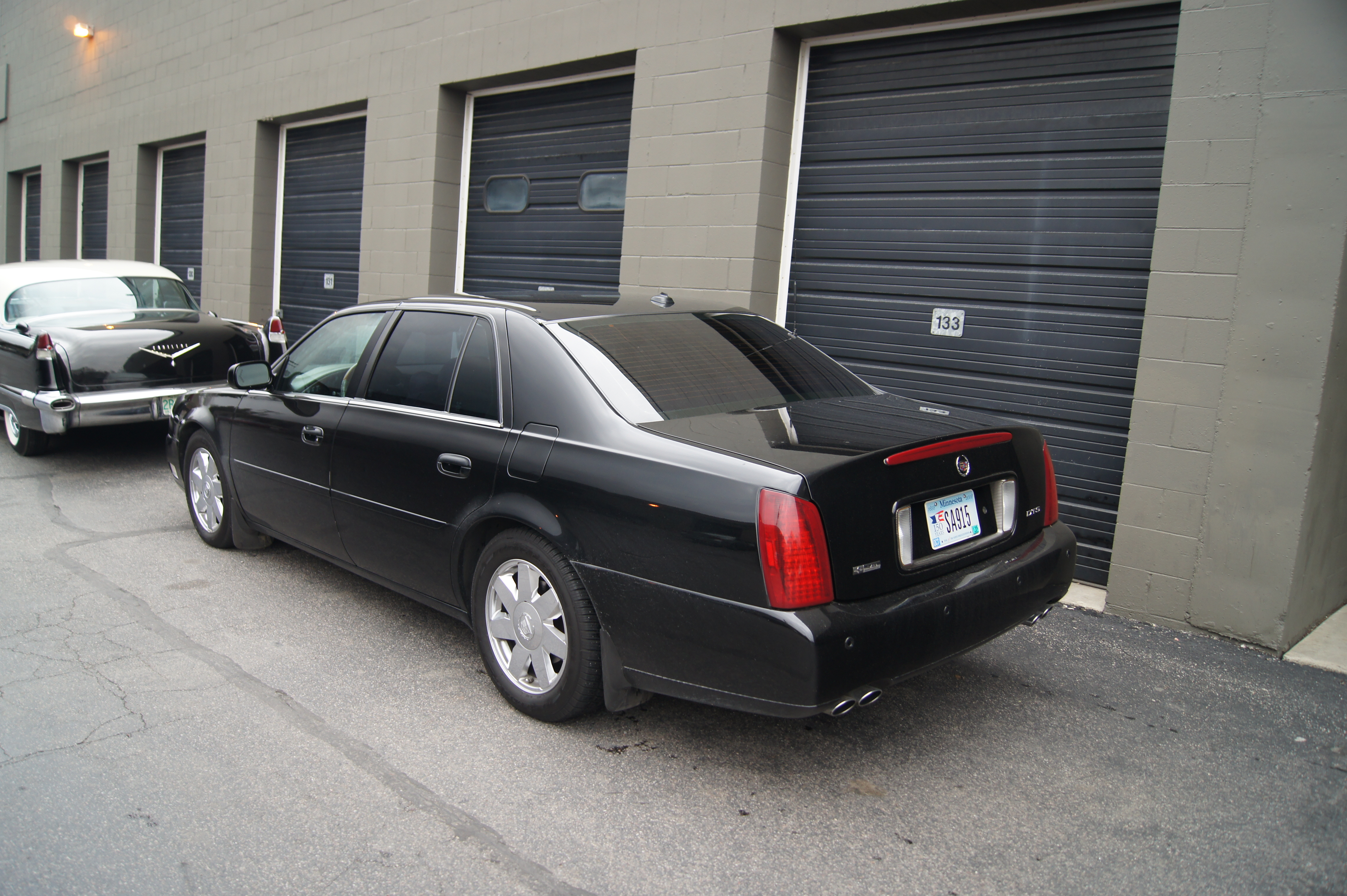 Classic Car Club of America Spring Garage Tour April 25, 2015 Click here for more car pictures at my Flickr site.